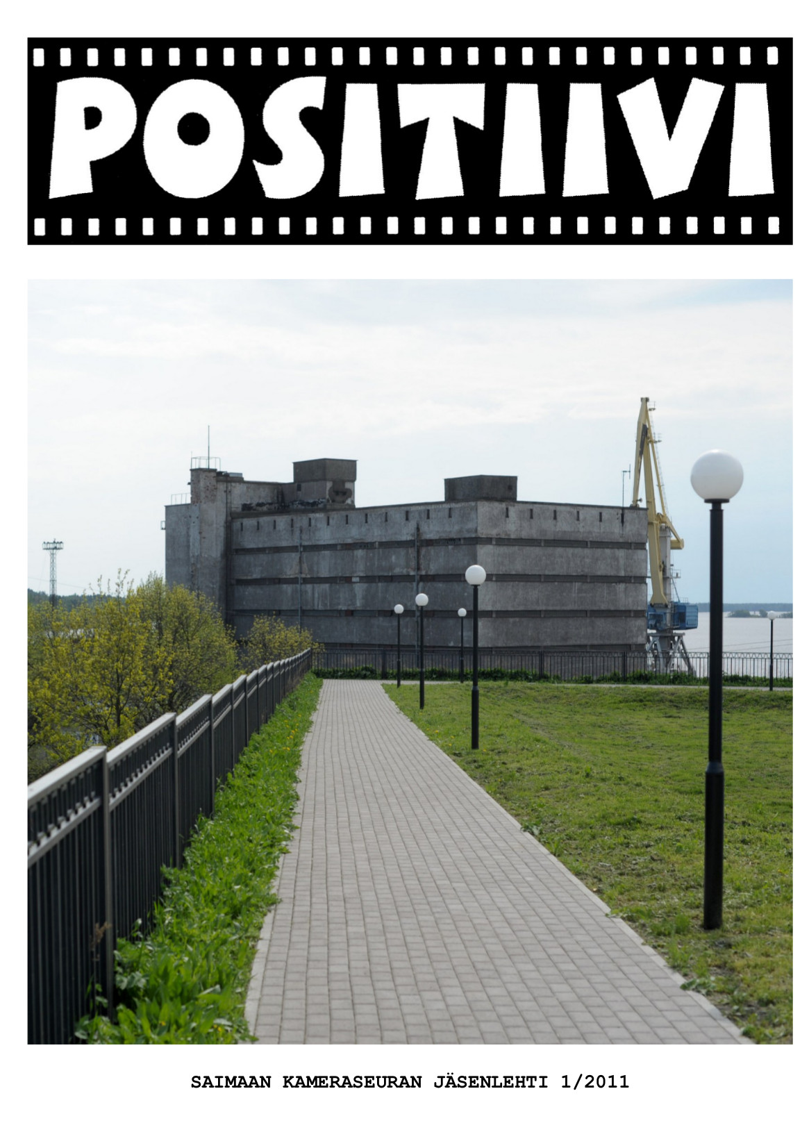 A magazine done by me, logo by me, name by me and picture by me! -tvkosone